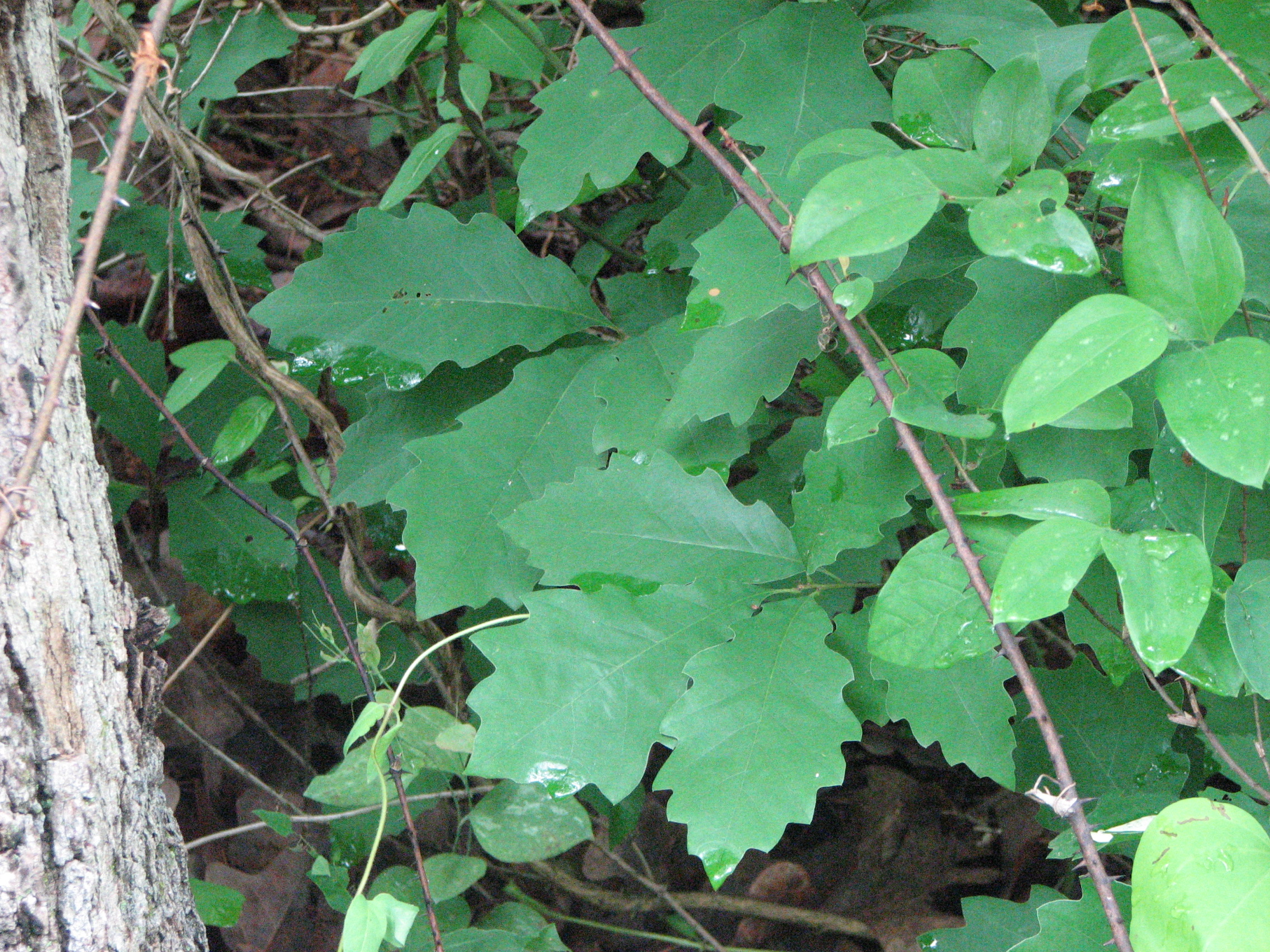 Quercus prinoides (dwarf chinkapin oak) growing on serpentine barrens, Nottingham County Park, Nottingham, Pennsylvania.